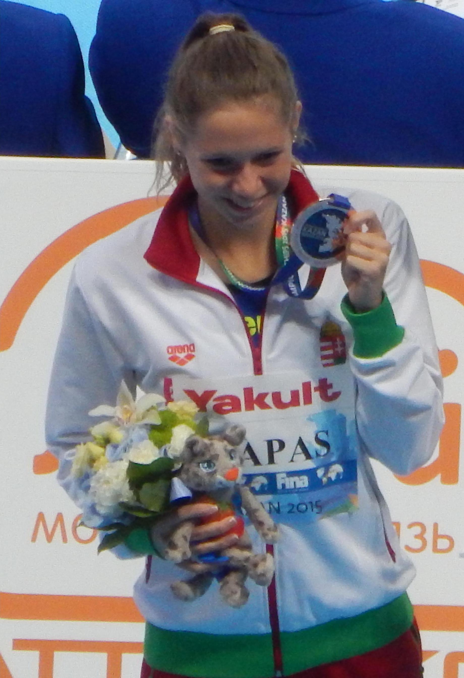 Boglárka Kapás is a bronze medallist at 1500 metres